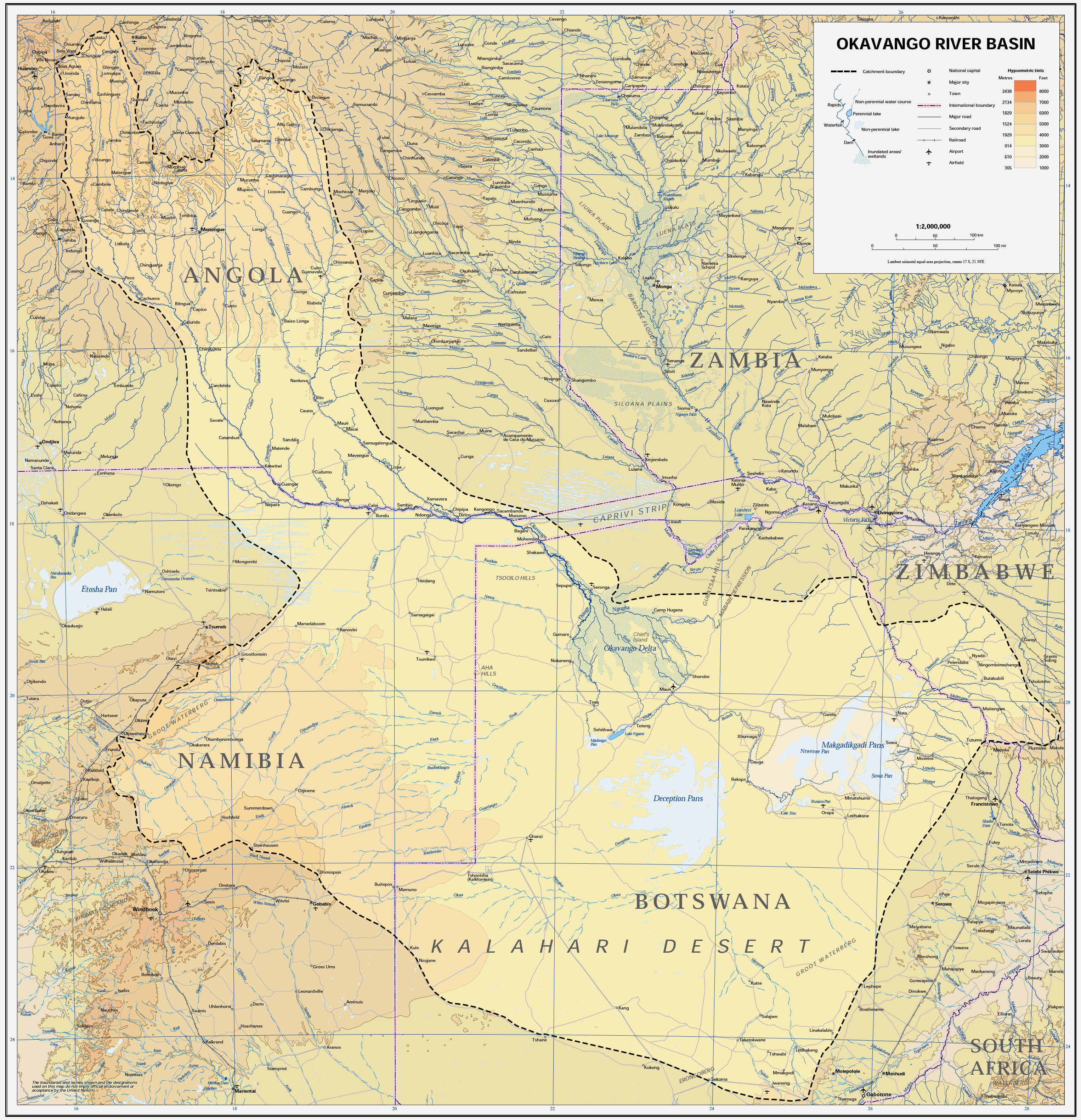 Map of the Okavango River Basin, with catchment area inside the dotted line (Angola, Namibia, Botswana)